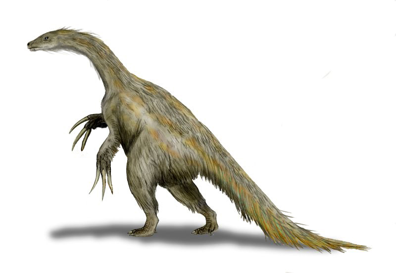 Nothronychus mckinleyi, a therizinosaur from the Middle Cretaceous of North America, pencil drawing, digital coloring